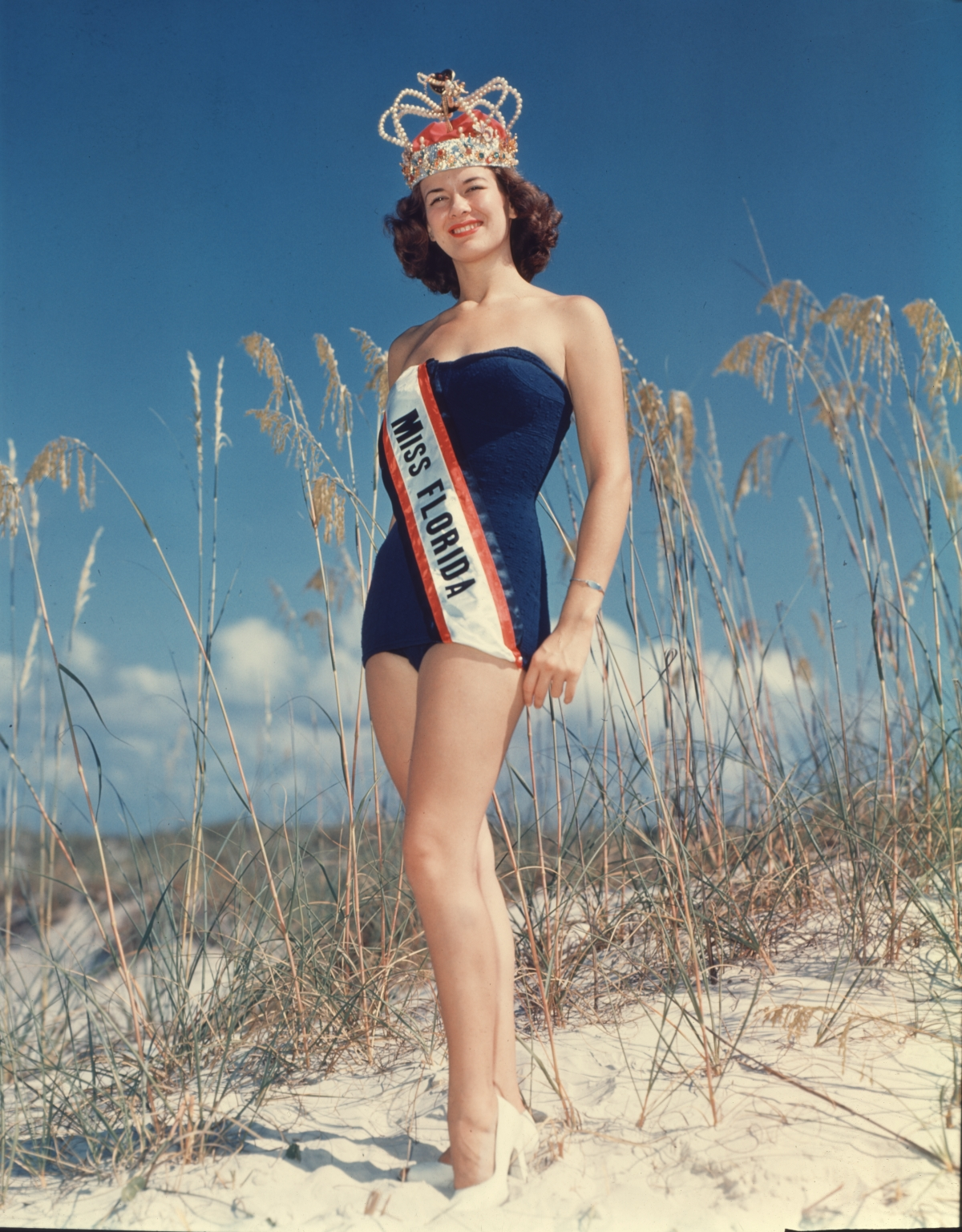 Miss Florida 1948 Rosemary Carpenter posing on a sand dune at Jacksonville Beach.